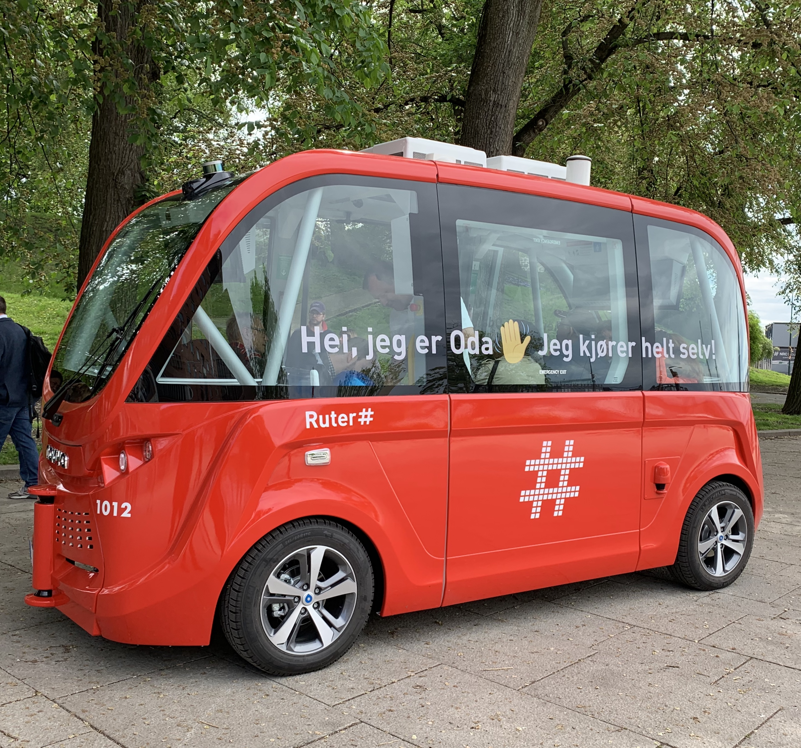 Autonomous bus operated by Ruter in Oslo, Norway